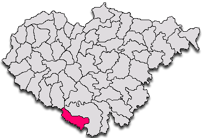 Map Salaj County Romania